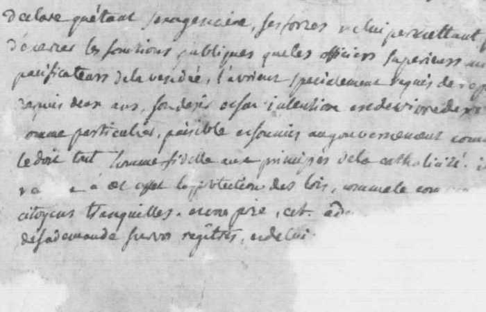 Extrait de la liste de Boisselage de 1797